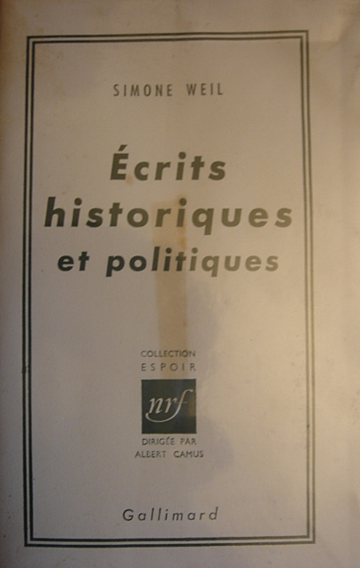 Cover of the first edition of Simone Weil's Écrits historiques et politiques.